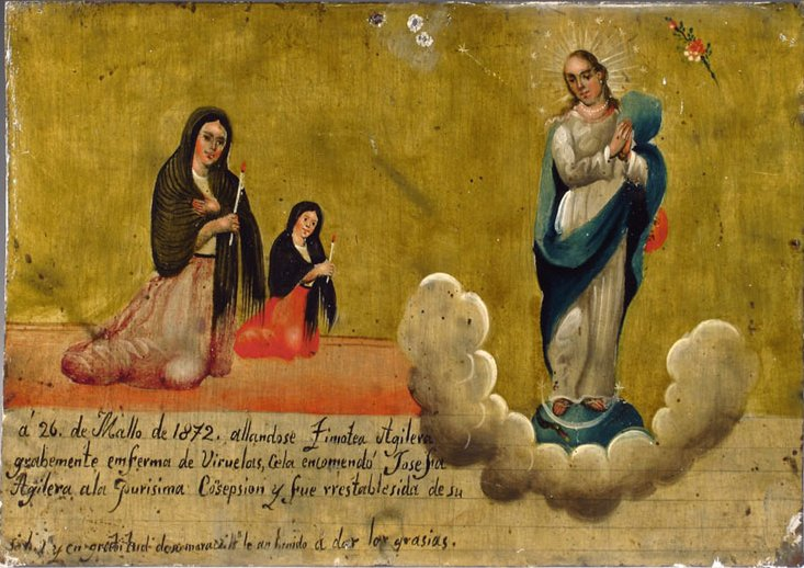 Ex-voto attributed to the Black Eye Painter, oil on metal, 1872, 7 x 10 in